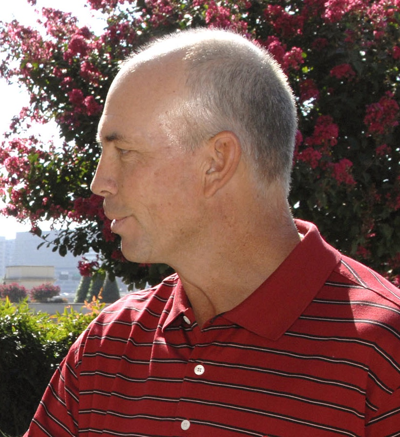 Tom Lehman during a visit to the Pentagon in 2006.